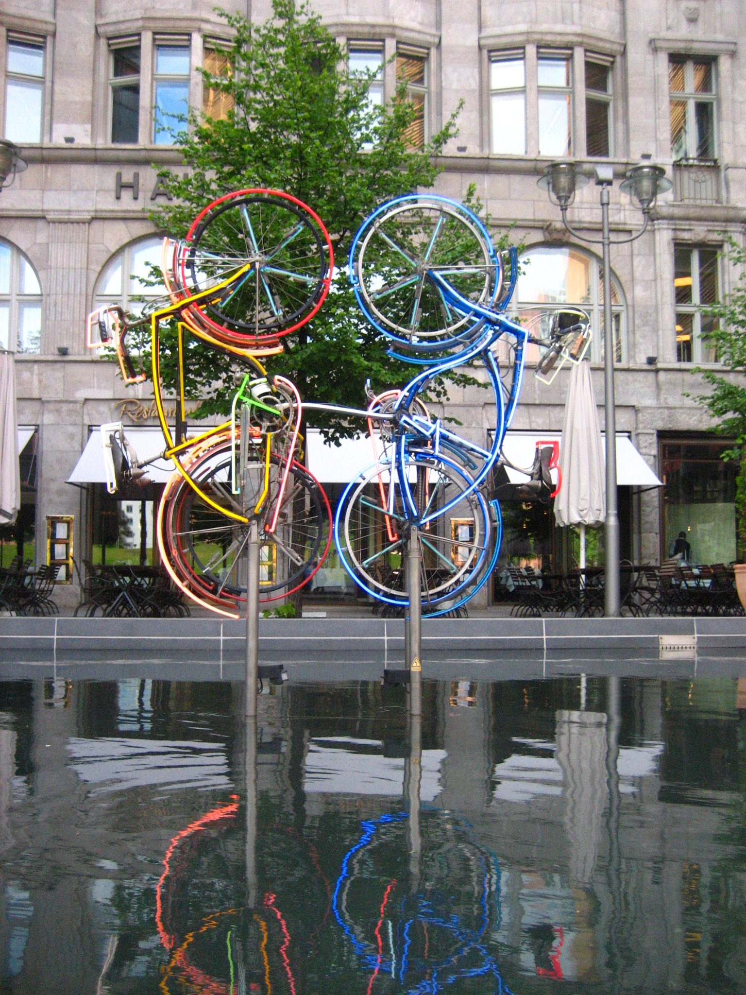 sculpture by Robert Rauschenberg in Berlin/Germany (FOP in Germany for sculptures in public places)